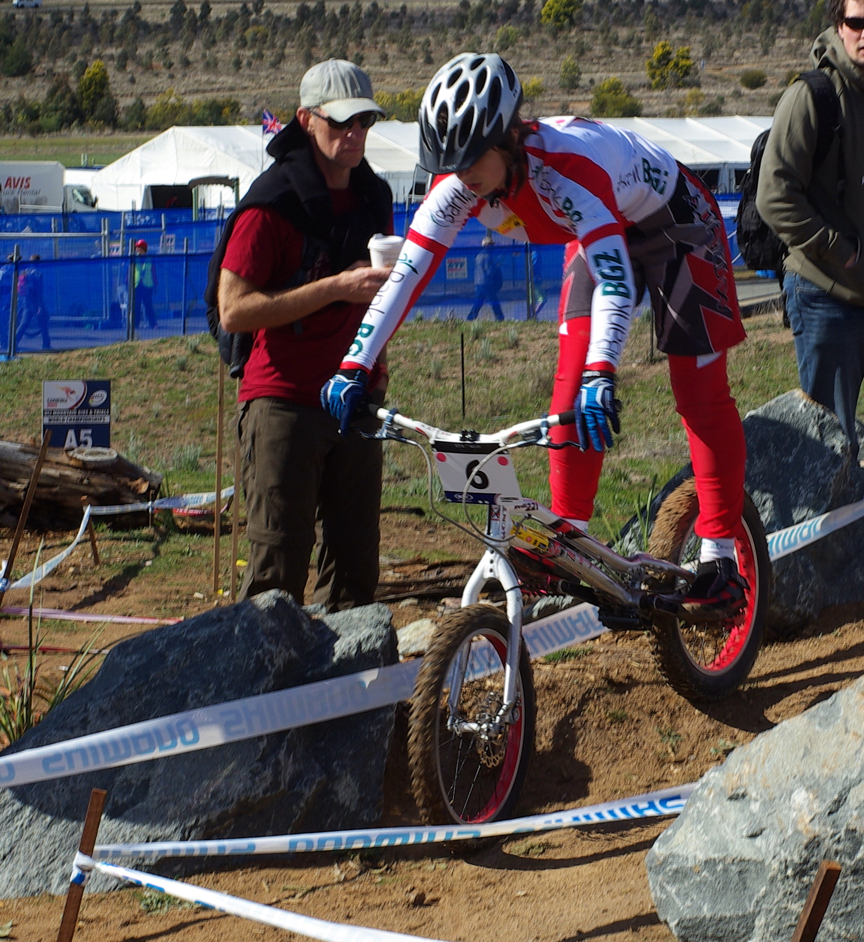 Competitor in the observed trials events at the 2009 UCI Mountain Bike & Trials World Championships held in Canberra, Australia. This competitor is in the junior women's 20" category (she is probably Sonia Klich from Poland) and is riding a Monty 221 Kamel.